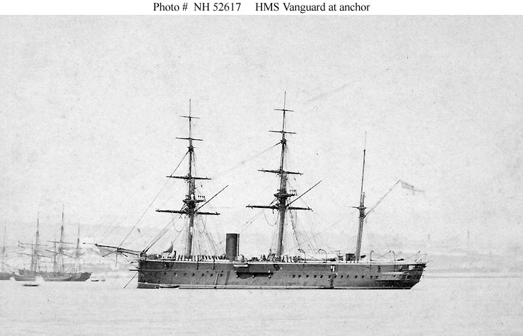 Caption : "HMS Vanguard (British Central Battery Ironclad Battleship, 1870) At anchor, circa 1870-1875. The original print is mounted on a Carte de Visite."